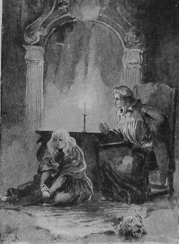 Illustration from old book - The Princess 1890